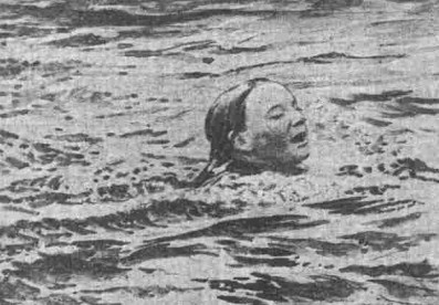 Swimmer Vivian Marshall in the Willamette River in 1906. She recorded a time of 30 minutes for trip to the west bank of the Willamette and back, which The Oregonian;; noted was the quickest recorded for a female swimmer. Marshall went on to have a vaudeville and film career.